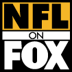 Logo of NFL on Fox.